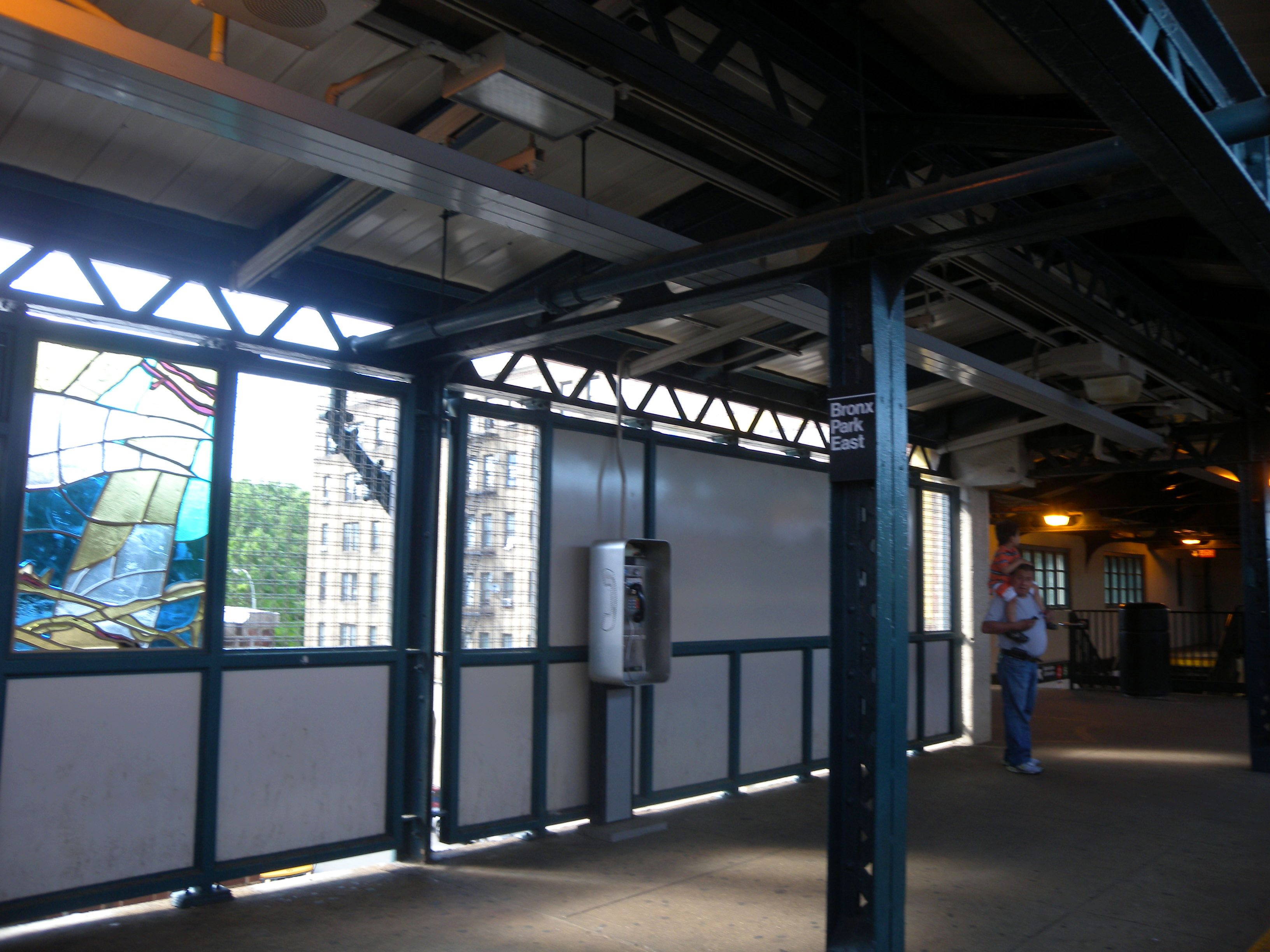 Looking northwest at southbound platform of Bronx Park East station on a sunny afternoon.